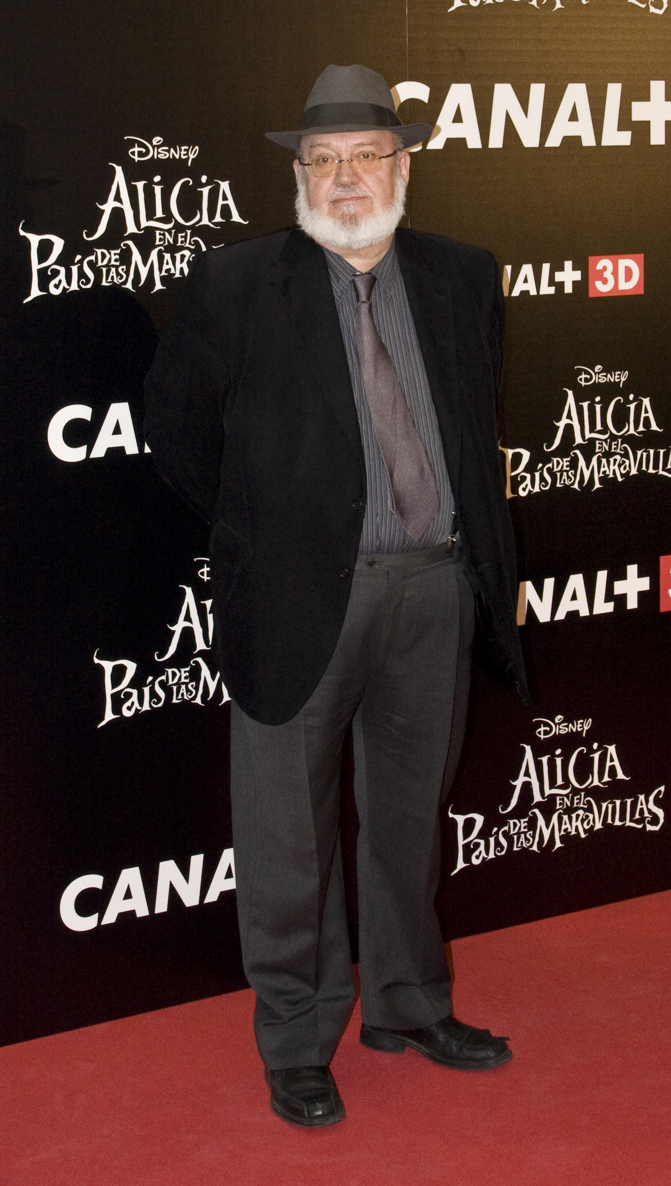 José Luis Cuerda Spanish film director, screenwriter and producer at the photocall of Alice in Wonderland in 2010.